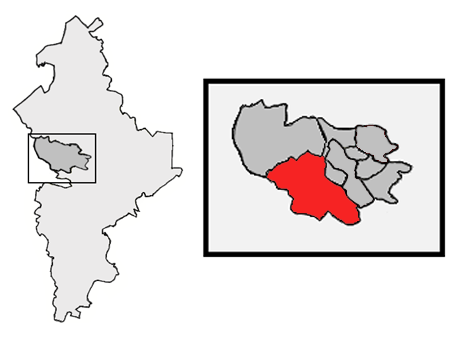 Municipality of Santa Catarina, Nuevo León. Made by Vince on September 4th, 2005.